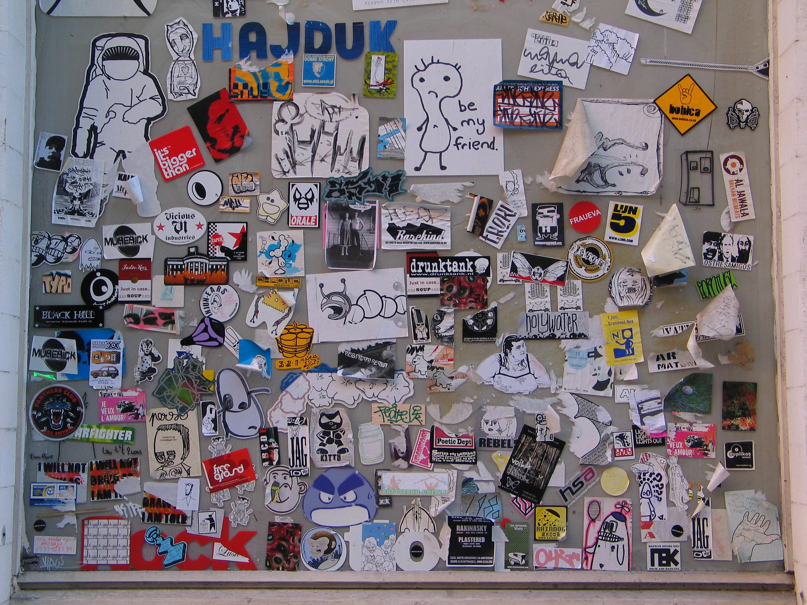 Sticker on a window in Amsterdam, Netherlands